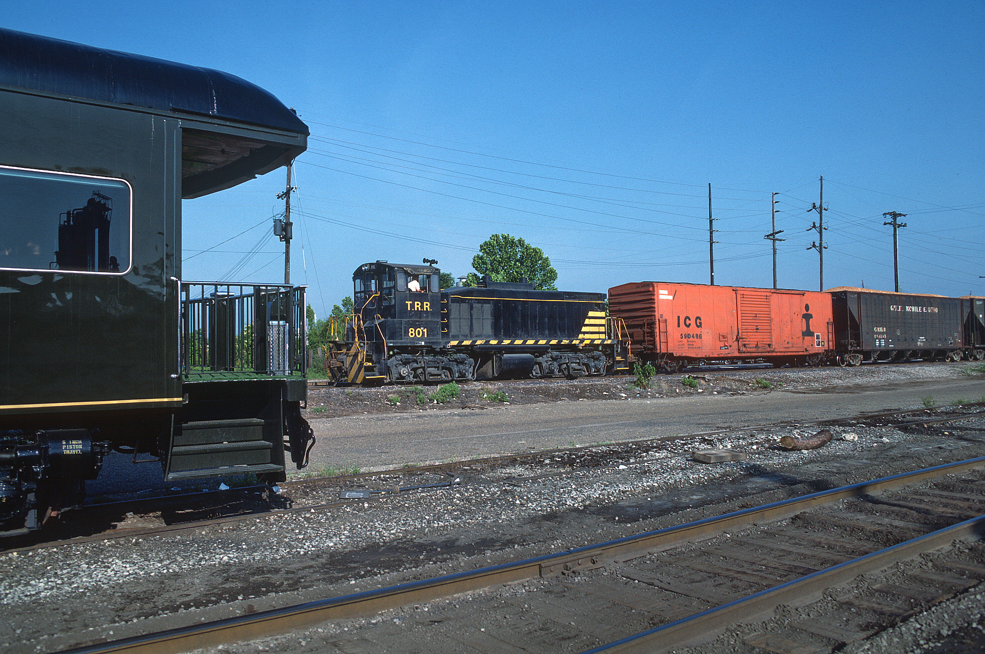 A Roger Puta photograph